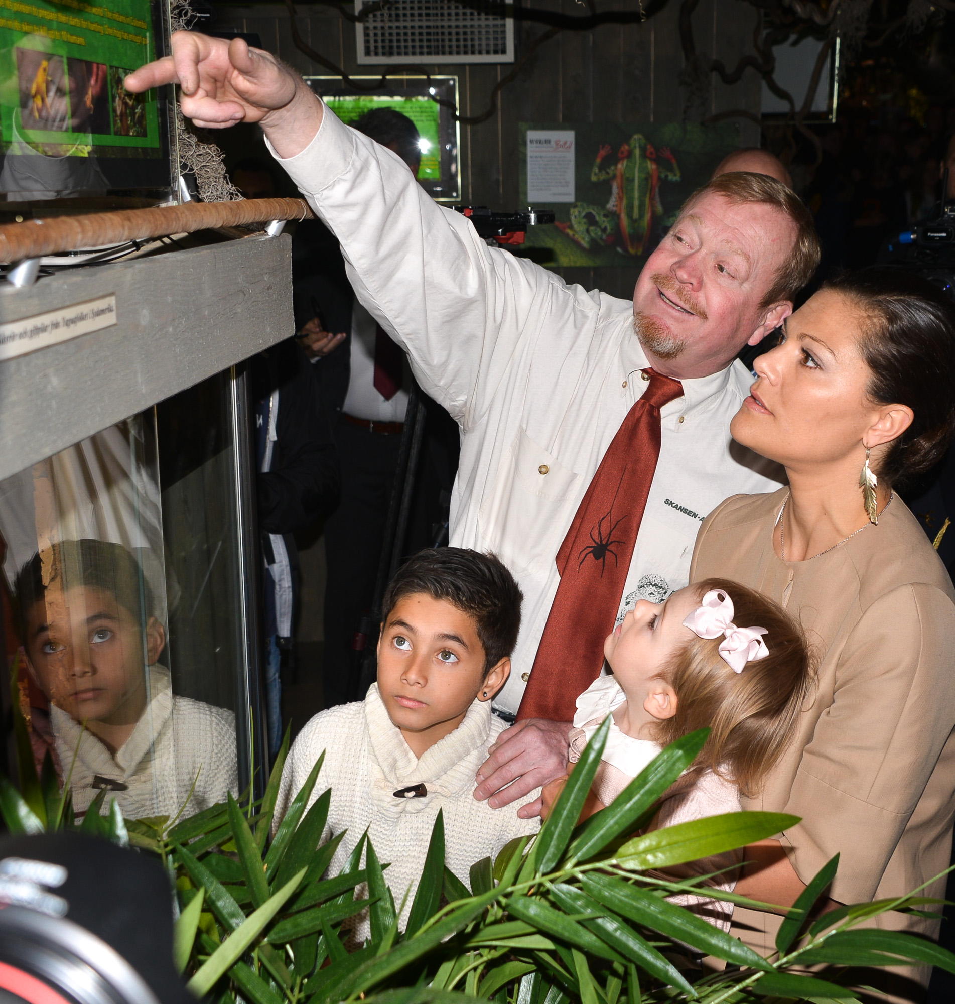 Crown Princess Victoria and Princess Estelle of Sweden visits Skansenakvariet in Stockholm 2014.